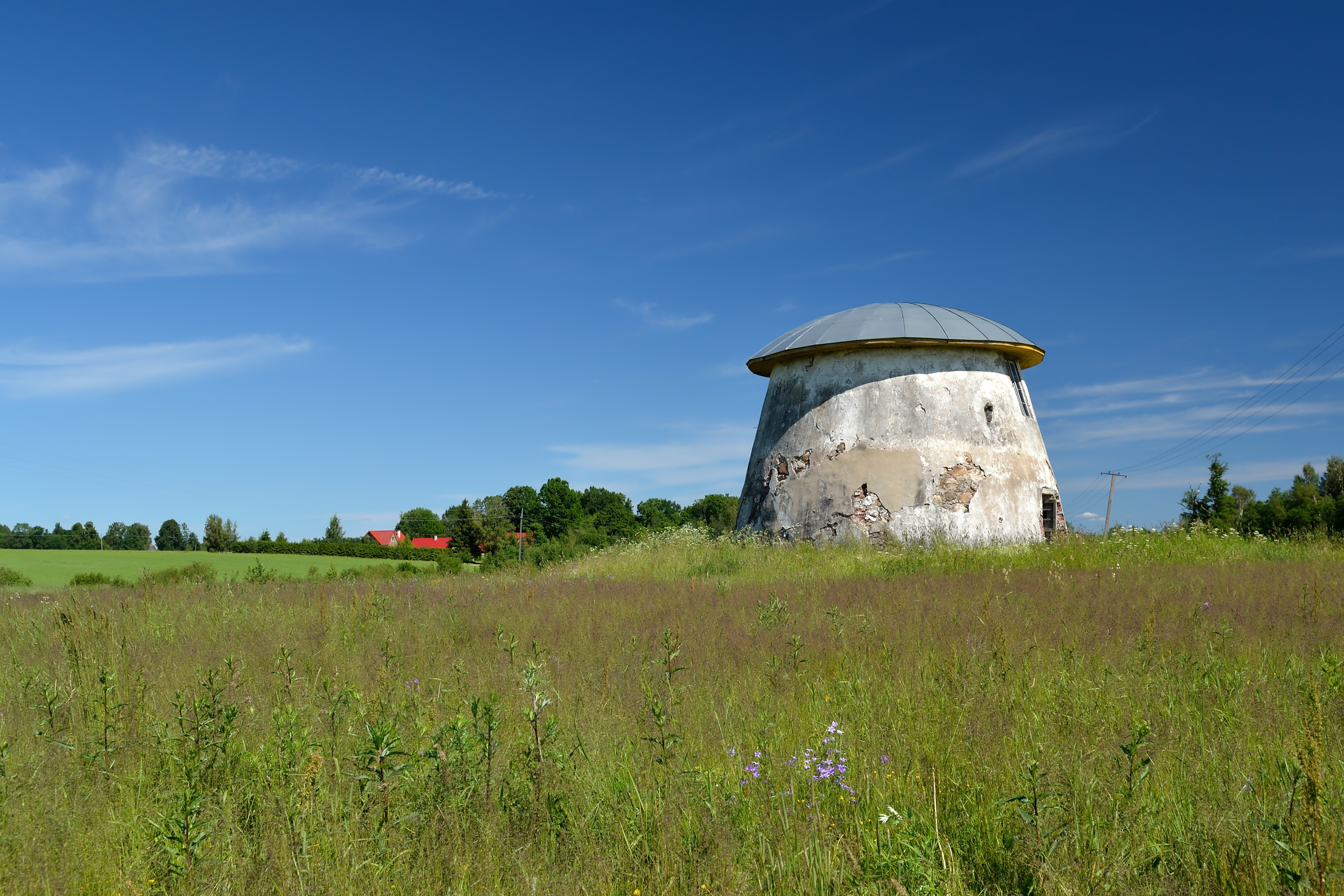 Kärneri windmill was built in 1891 by the Kopli farmstead owner Friedrich Kärner. In Soviet times (after World War II) two floors of the mill were dismantled and it was used as a silage tower. Later it was used as cement storage building.